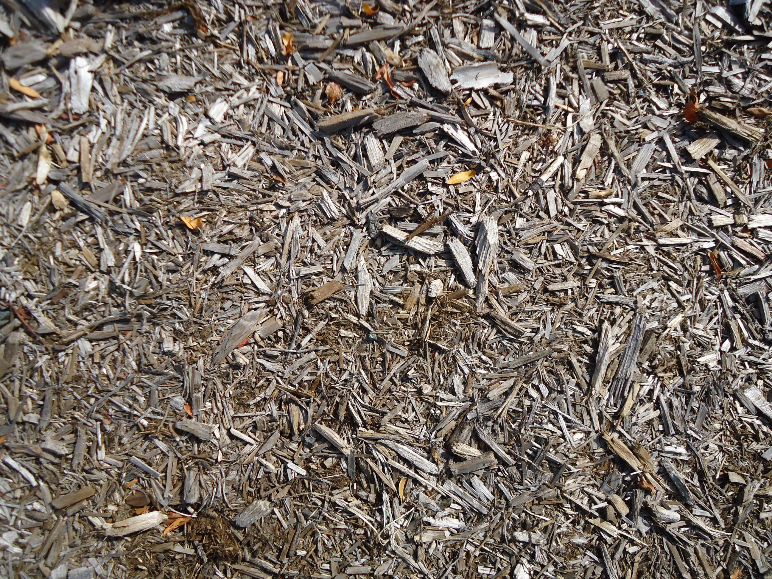 Exploration of surfaces and textures using a close-up camera angle. Ground up tree bark or mulch on a pathway.